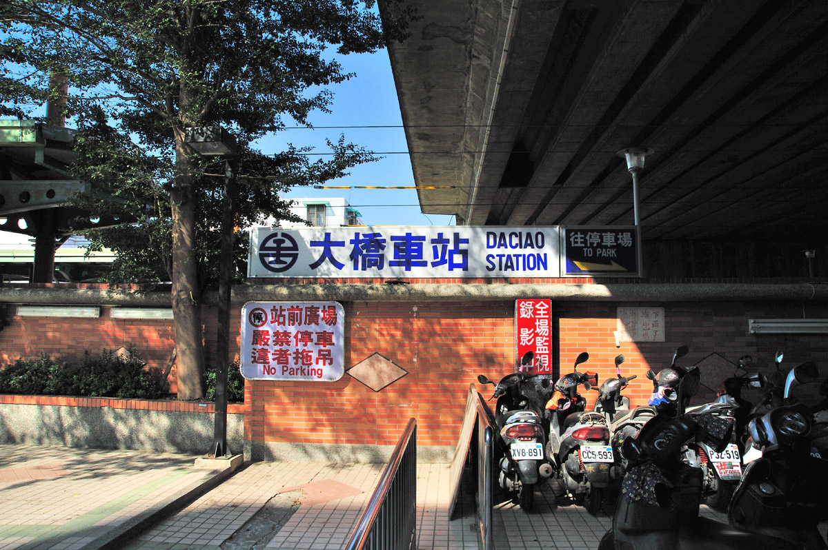 YongKang Station is a local train station of Taiwan's Western main rail line. It locates within the boundary of YongKang City, TaiNan County. The photo shows the station sign.